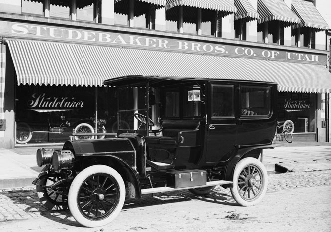 Studebaker Brothers Limo - Auto, 1908. 1908 Studebaker Brothers Model G limousine, built by Garford. This limousine had an open driver's compartment for the chauffeur and a closed cabin with two windows per side for the passengers, as typical in Edwardian limousines.